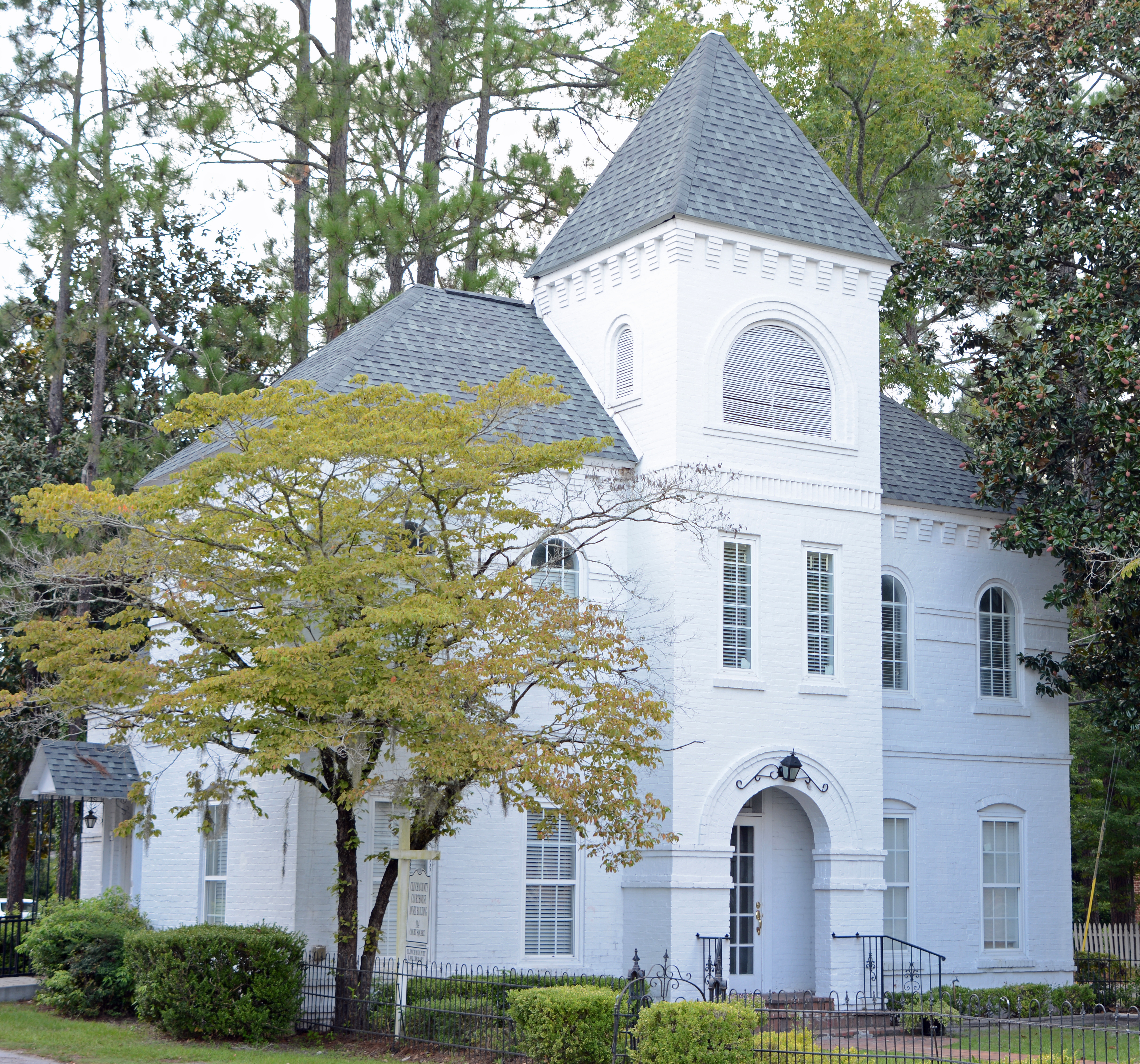 Clinch County Jaill, Homerville, Georgia, US